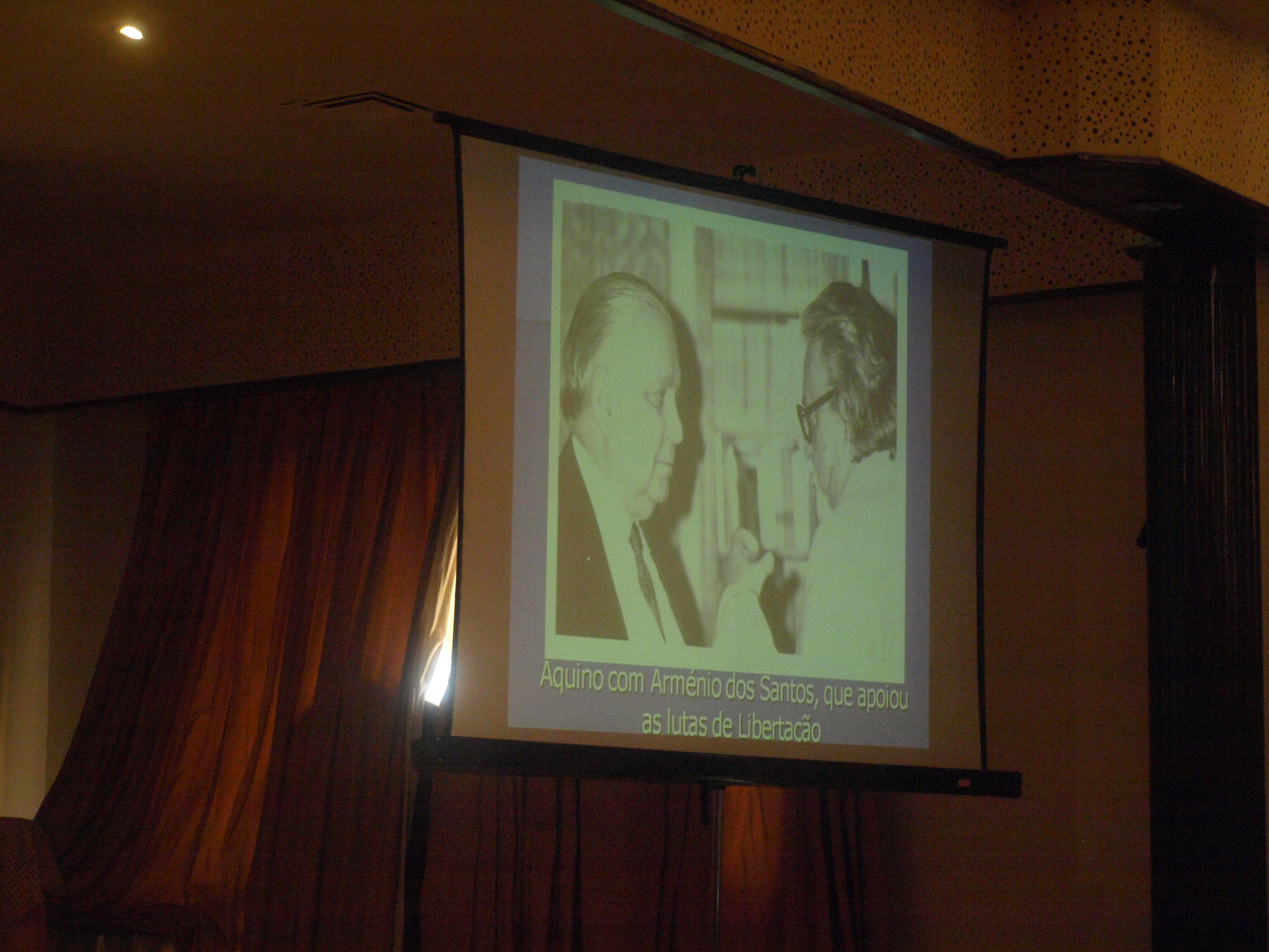 Slideshow in progress. Photographed by Frederick Noronha.